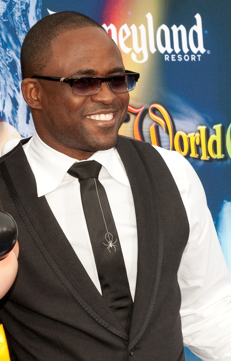 Wayne Brady at World of Color Premiere at Disney California Adventure Park in June 2010